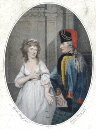 From a miniature painting by Charles Shirreff (ca. 1750-1829), hand coloured stipple engraving of Sarah Siddons and Mr (John Philip) Kemble in the roles of Sigismunda and Tancred. Victoria & Albert Museum, Harry Beard Collection. Place of origin: London (printed and published) Date: 12th December 1785 (published) Artist/Maker: Shirreff, Charles (painter); Watson, Caroline, born 1760 - died 1814 (engraver) Materials and Techniques: Print Museum number: S.6059-2009 Gallery location: In Storage Public access description Hand coloured stipple engraving of Mrs. Siddons and Mr. (John Philip) Kemble in the characters of the lovers Sigismunda and Tancred from James Thomson's Tancred and Sigismunda. She is dressed in a white flowing empire line gown with a three quarter length sleeves and a thick silver ribbon at the bust. He stands beside her and is holding out a letter which she is preparing to take. He is dressed in the uniform of a soldier which consists of a blue and red jacket trimmed with gold braid and is worn with a tartan skirt and tall black hat with a long red and gold tassel. URL